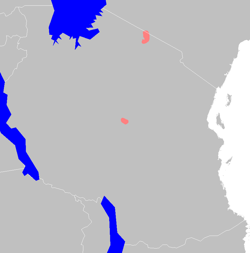 East African halophytics ecoregion map